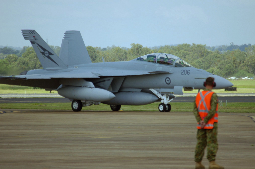 Taken at the Super Hornet arrival ceremony at RAAF Amberley